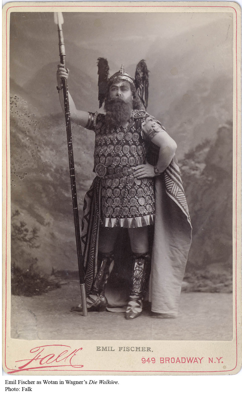 Photograph by Falk of Emil Fischer in the role of Wotan in Wagner's opera 'Das Rheingold' at the 1889 New York Premiere